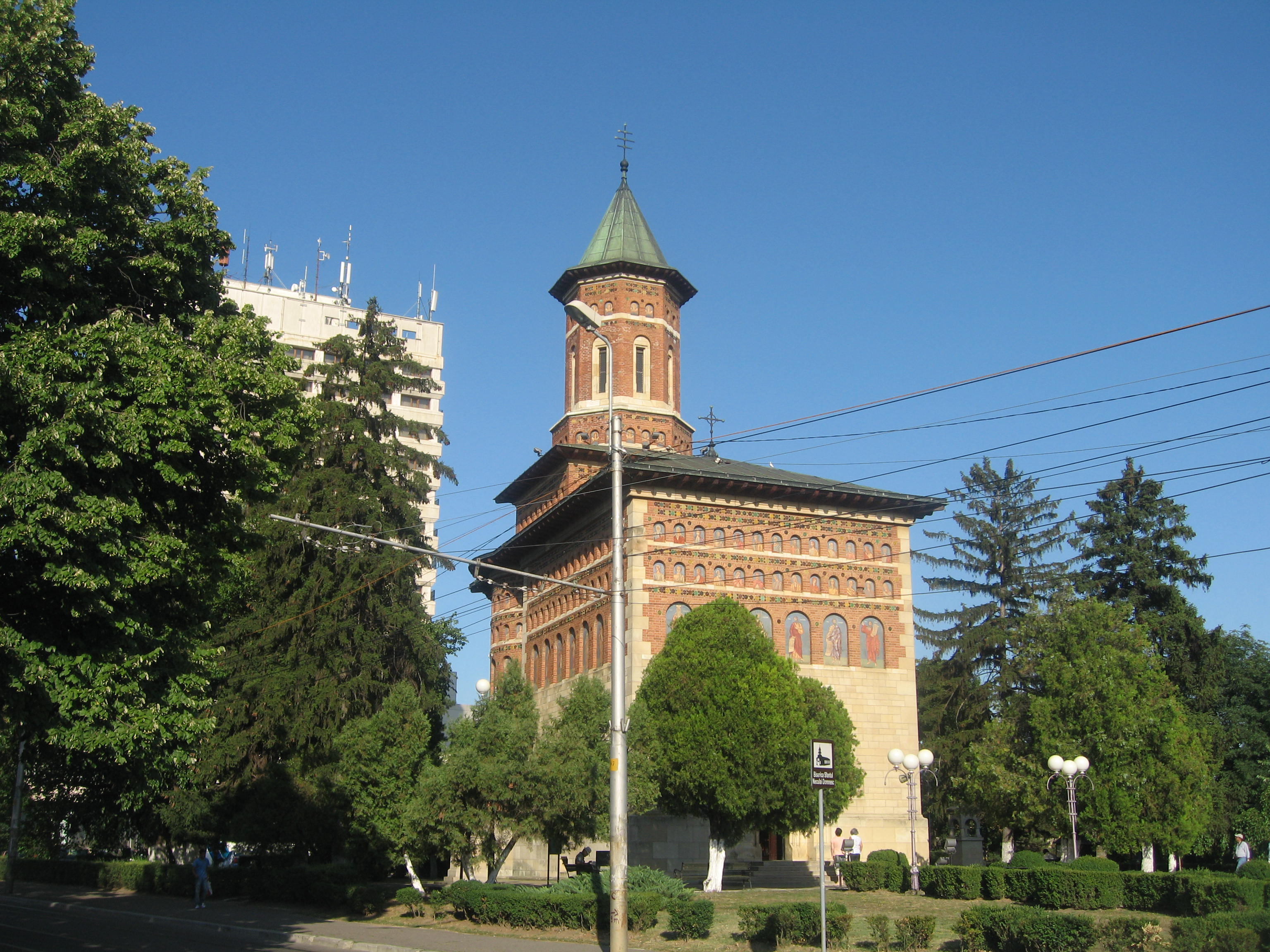 Biserica Sf. Nicolae Domnesc din Iași, România